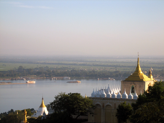 Ayeyarwady River from Sagaing Hill, Sagaing